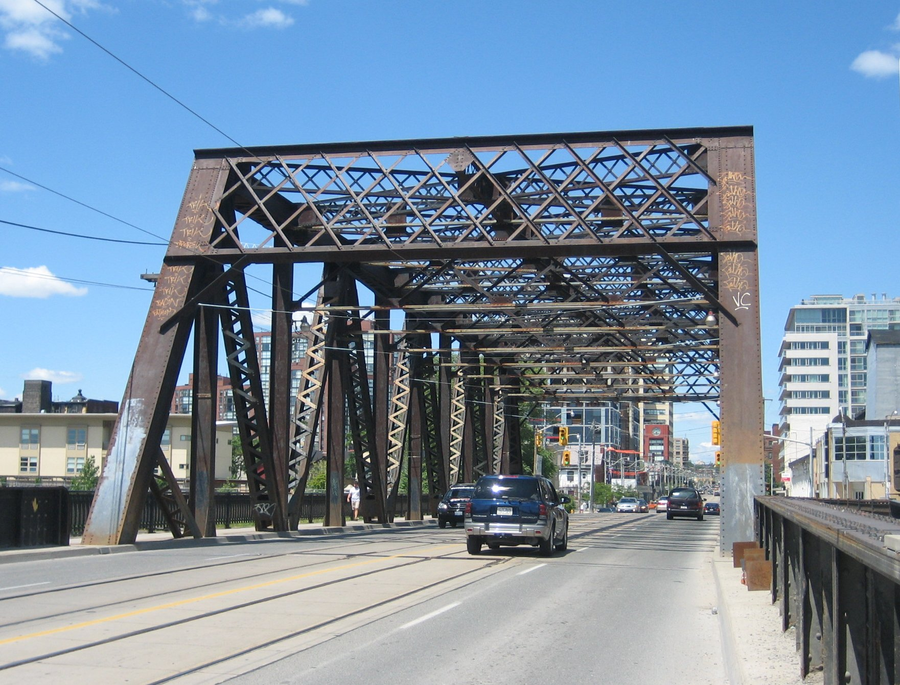 Bathurst Street Bridge in Toronto